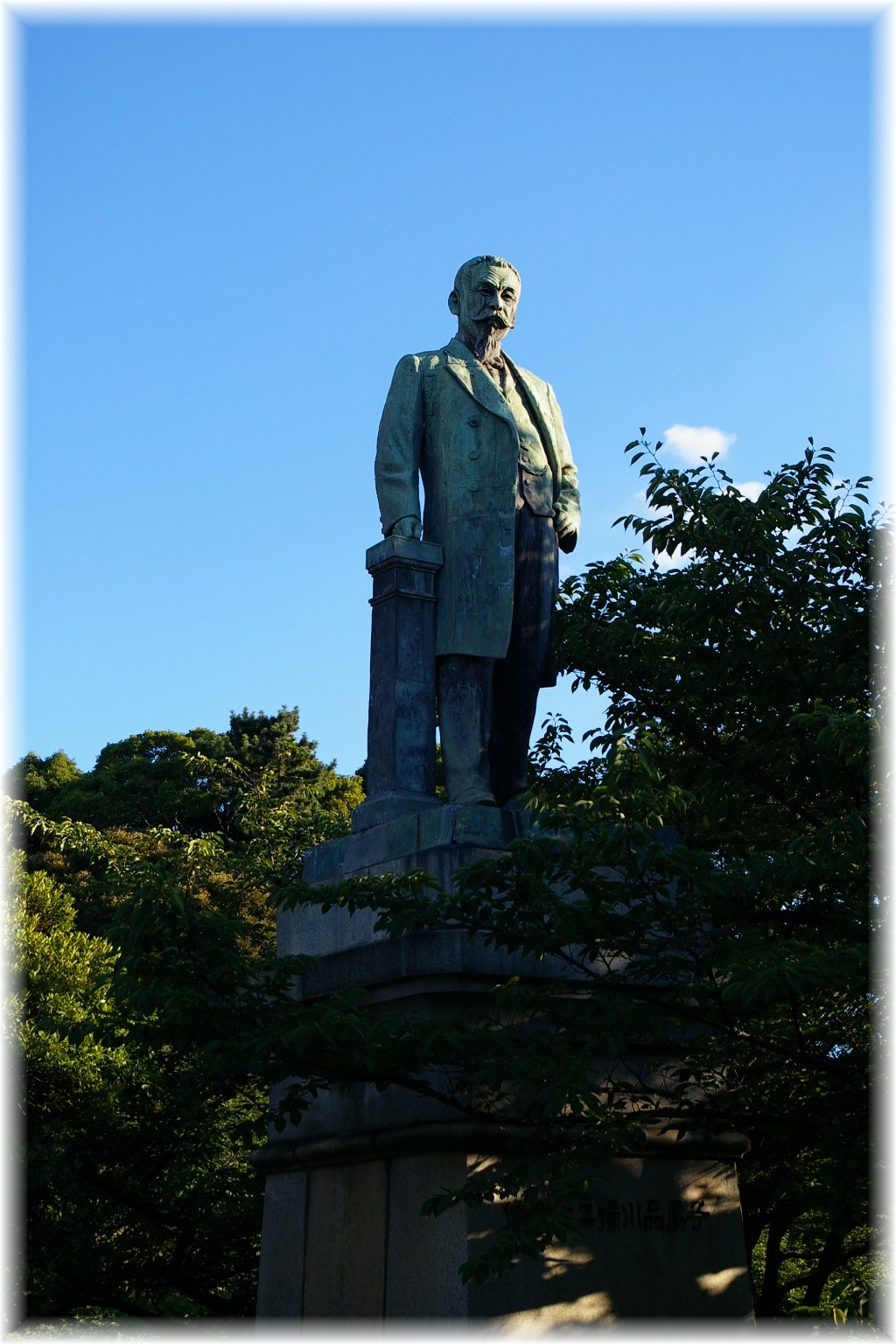 Bronze statue of Shinagawa at Yasukuni Shrine, Tokyo